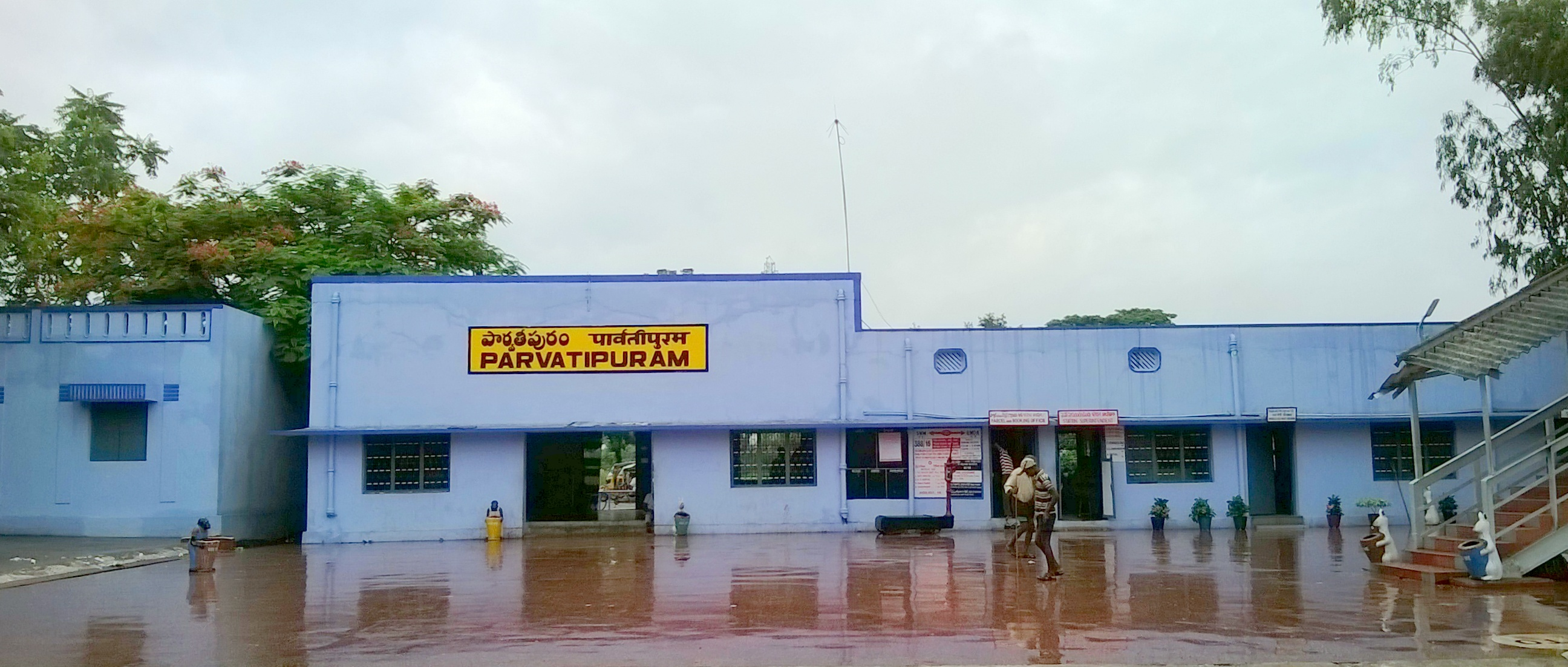 Parvatipuram railway station